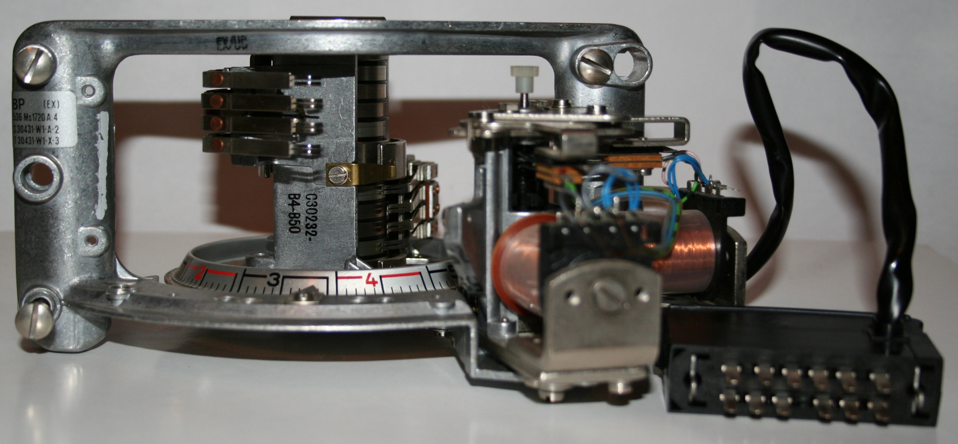 Motor driven rotary telephone switch with precious metal contacts